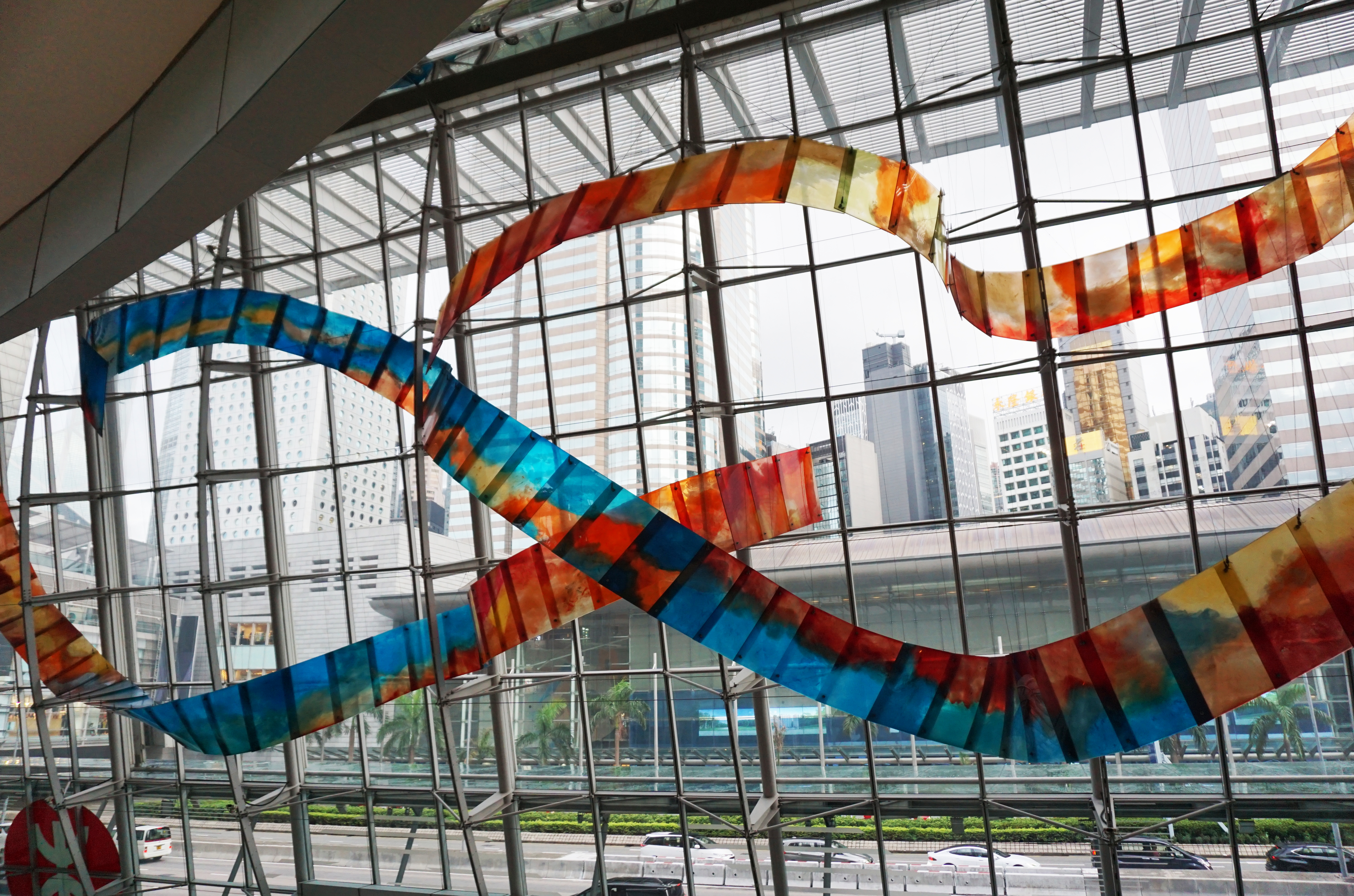 Dancing Ribbons — glass artwork at MTR Hong Kong station